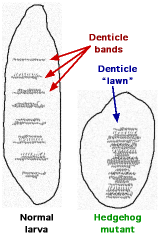 I (John Schmidt) made this diagram based on images in this article: Requirements for hedgehog, a segmental polarity gene, in patterning larval and adult cuticle of Drosophila.